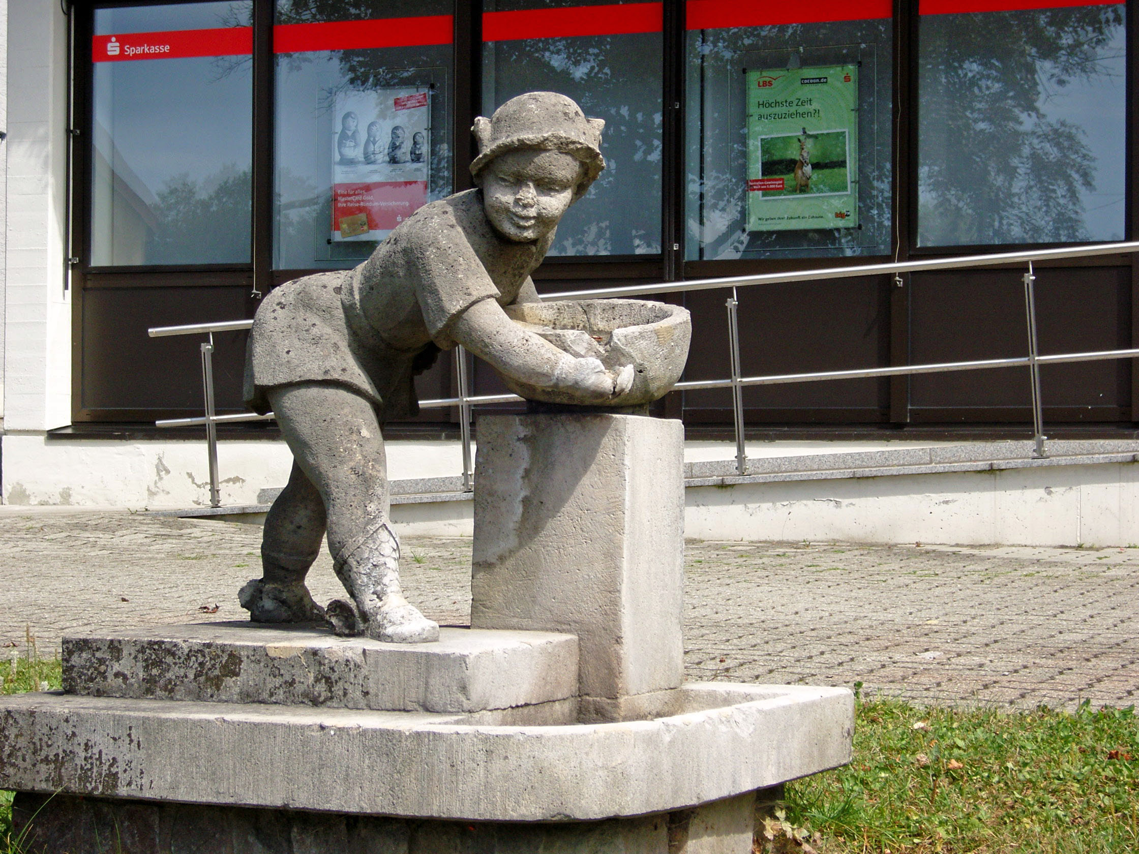 Statue of the God HErmes in front of the Bank in Balingen Endingen